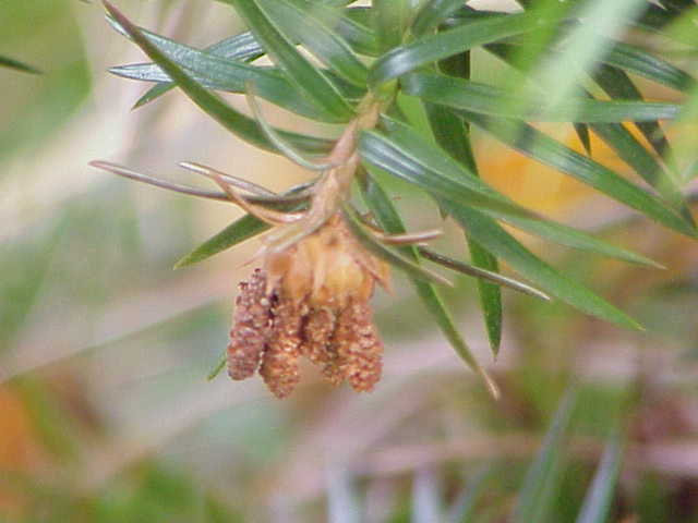 Species: Cunninghamia lanceolata Family: Cupressaceae Image No. 1